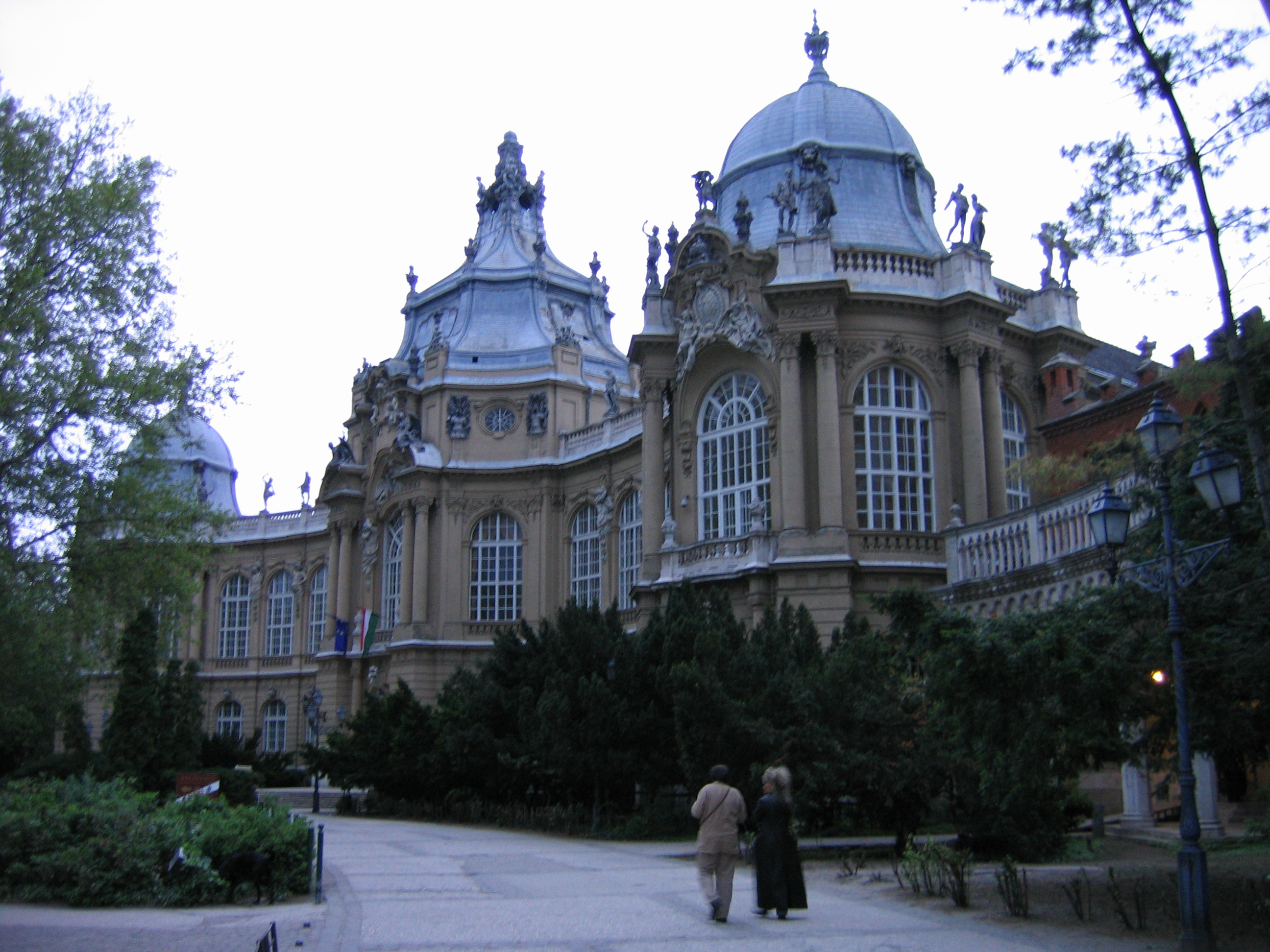 Vajdahunyad Castle (Vajdahunyad vára), Budapest, Hungary